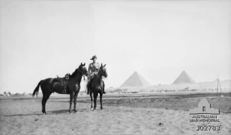 LIEUT. CARTHEW 8TH LIGHT HORSE BRIGADE, HOLDING MAJOR ARCHIBALD MCLAURIN'S HORSE, NEAR MENA CAMP, EGYPT.